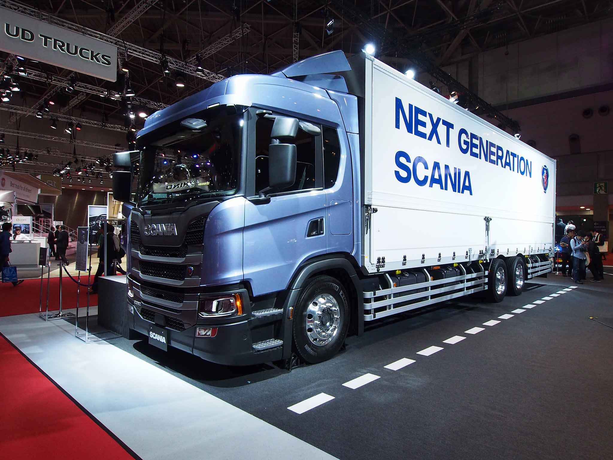 Scania G360 cargo truck, displayed at Tokyo Motor Show 2017.